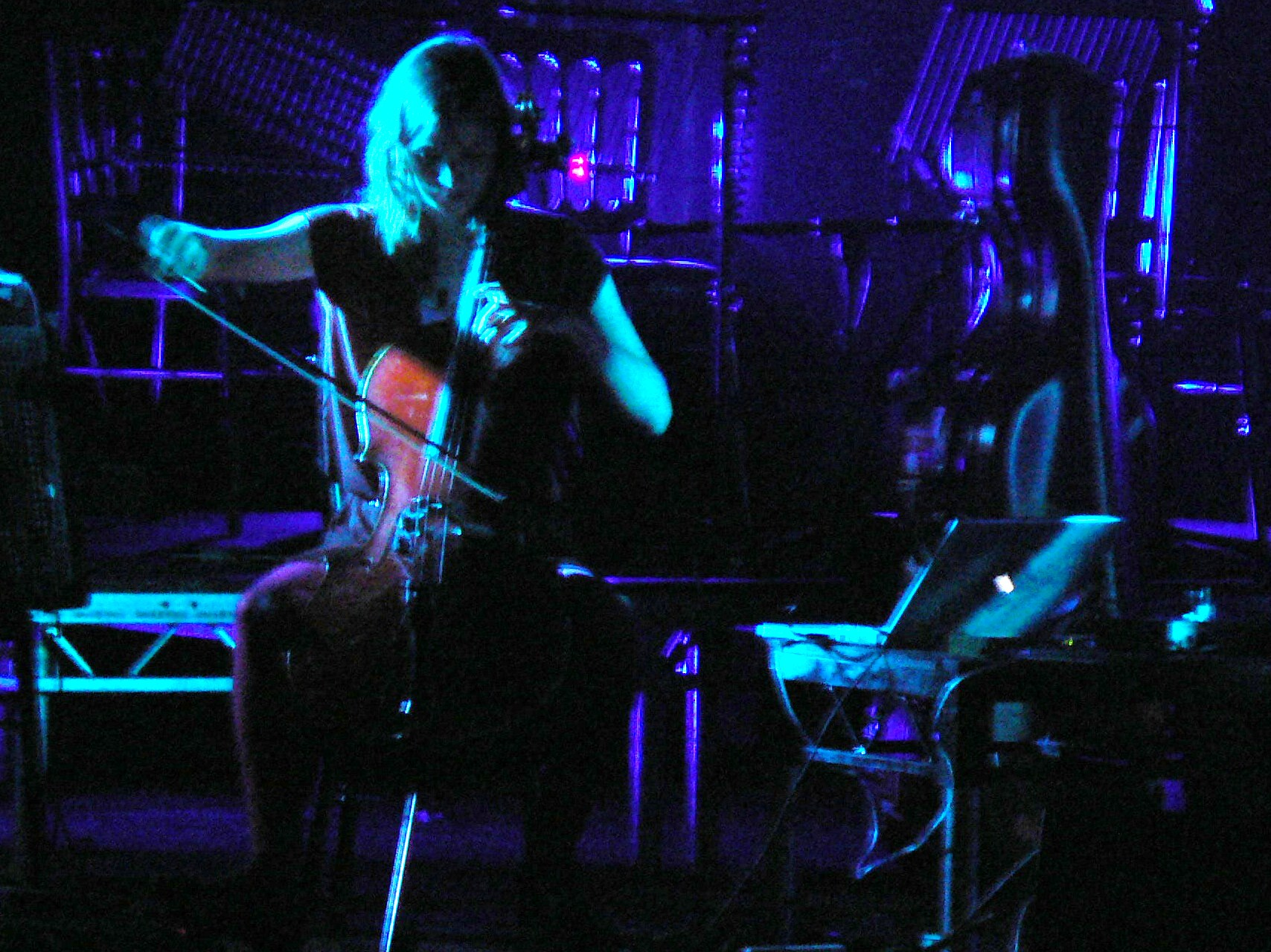 Touch evening at the Roundhouse, London.